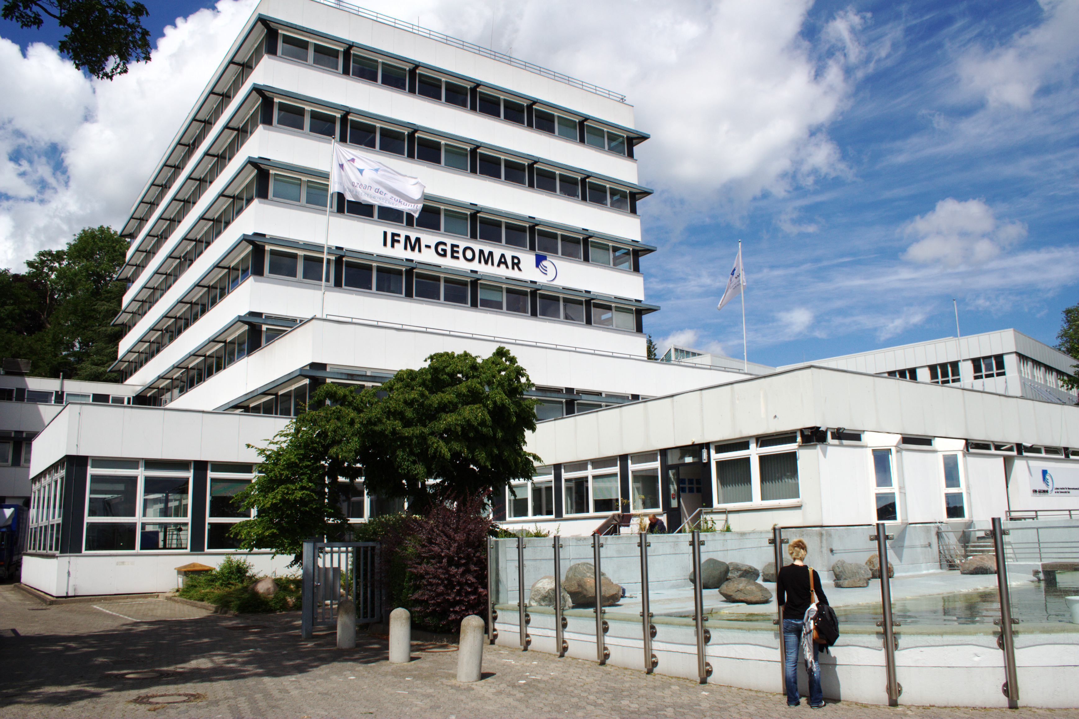 The IFM-Geomar (Leibniz-Institut für Meereswissenschaften) in Kiel, Germany.